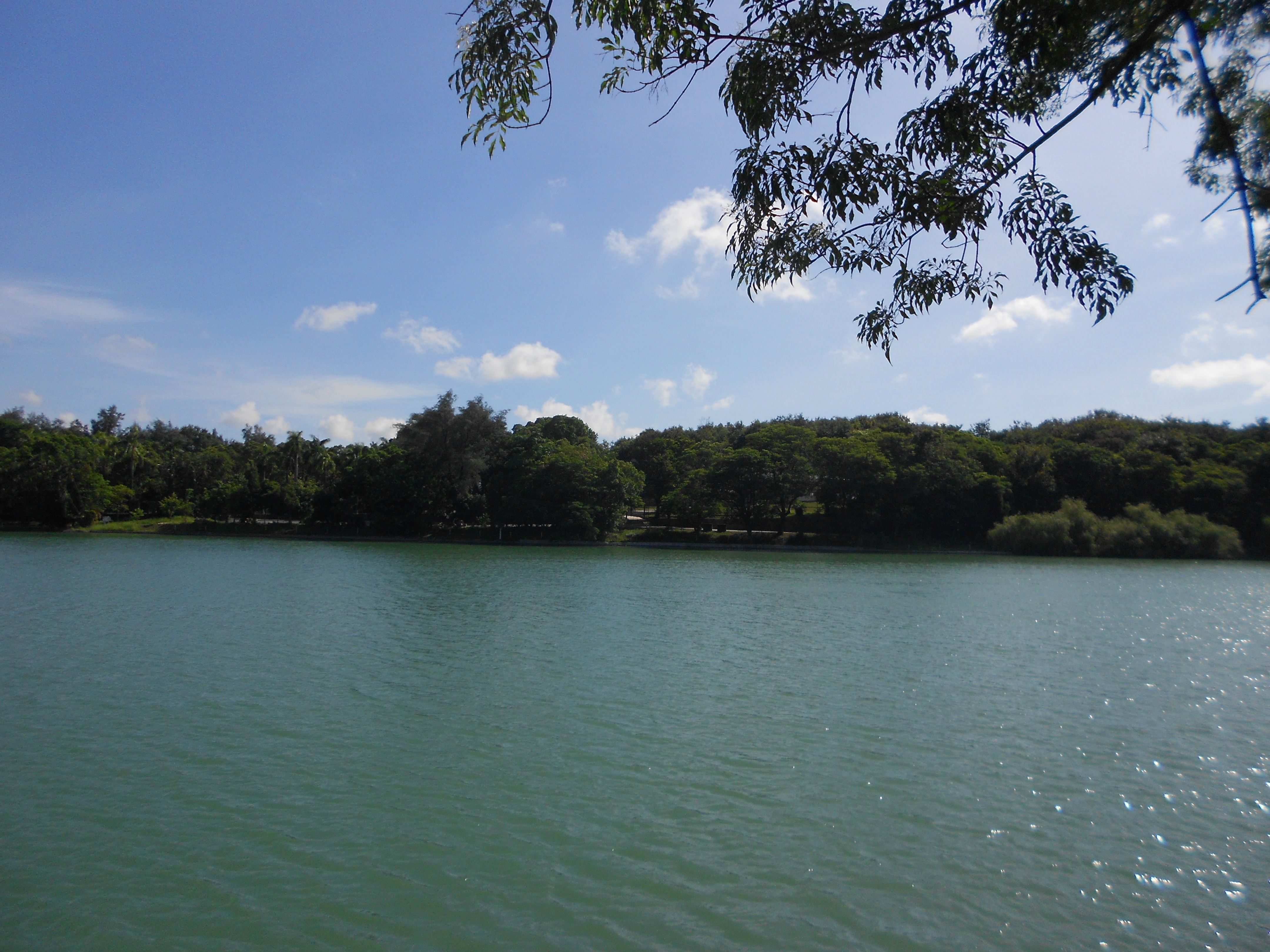 Chengching_Lakefront